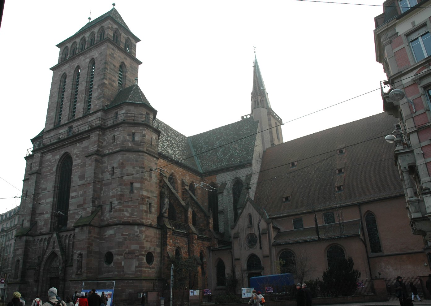 Saint-Pierre-le-Vieux's Church, Strasbourg (France)